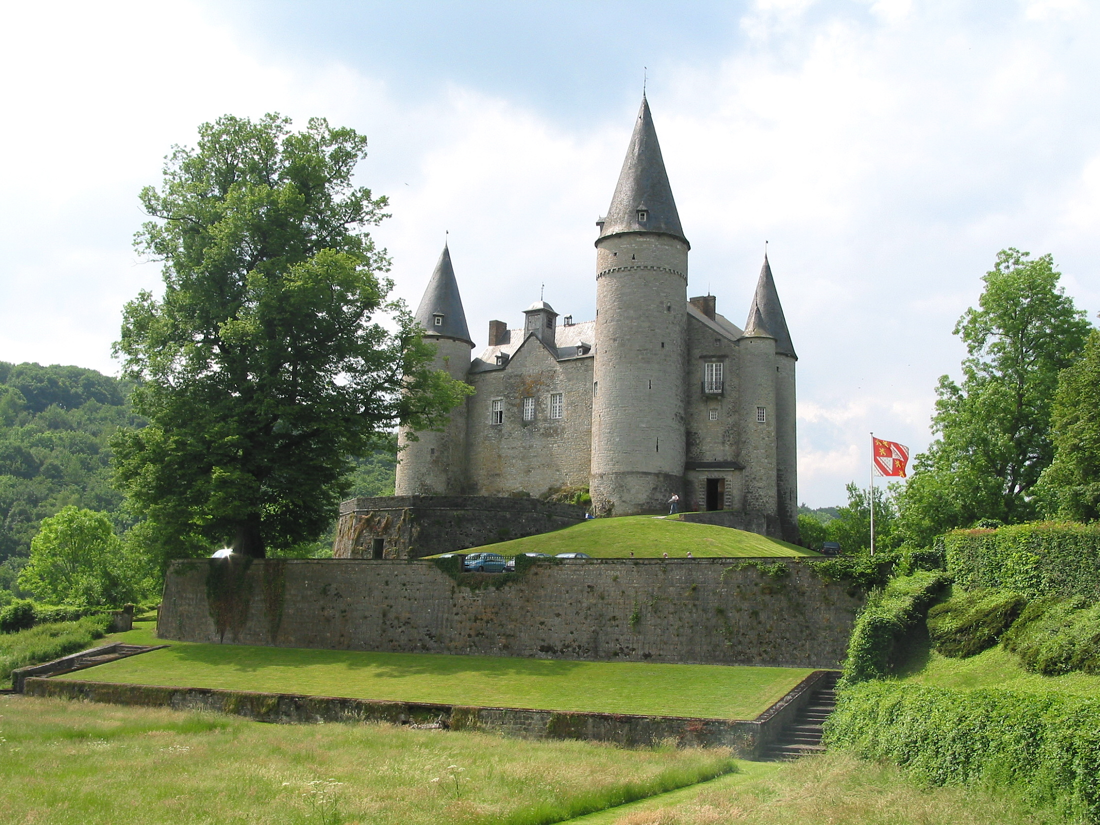 Celles, Houyet (Belgium), the Liedekerke-Beaufort family castle in Vêves(XIII/XVIIIth centuries).